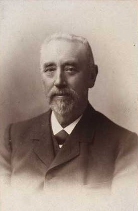 Danish politician, MP Jørgen Pedersen (1841-1920)